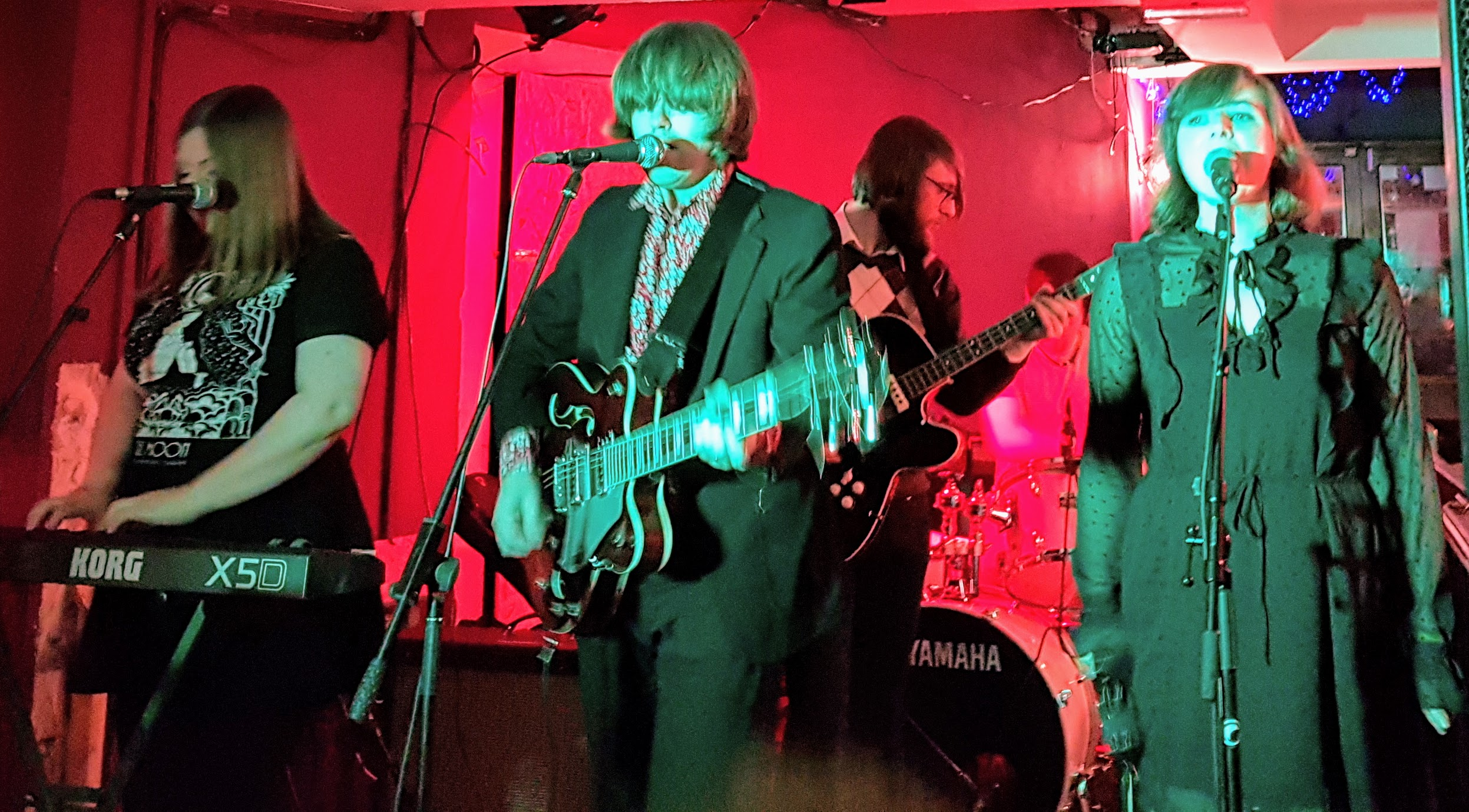 (Some of) The Loves on stage, The Moon, Cardiff